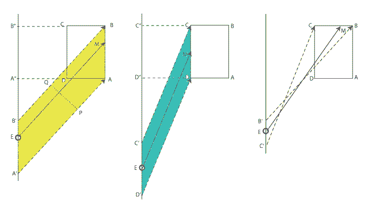 Basic principles of planimeter